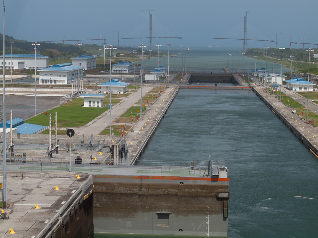 Photograph taken February 1, 2018 of construction of Atlantic Bridge from the new Agua Clara Locks